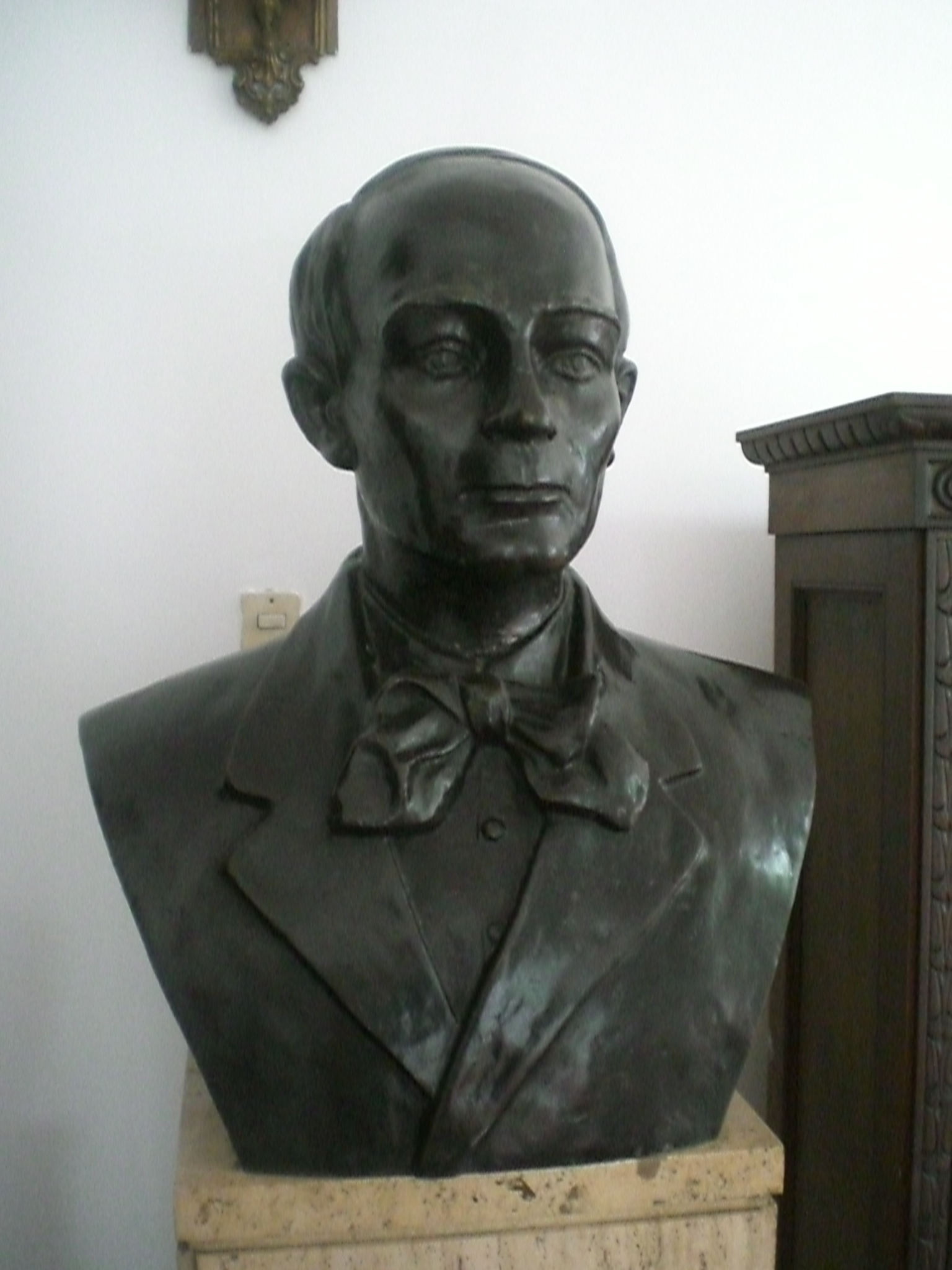 Sculpture of Venezuelan intellectual Cecilio Acosta at the Palace of the Academies, Caracas, Venezuela.